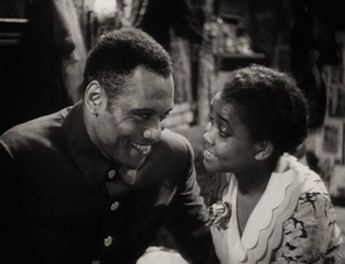 Paul Robeson & Ruby Elzy in The Emperor Jones - cropped screenshot